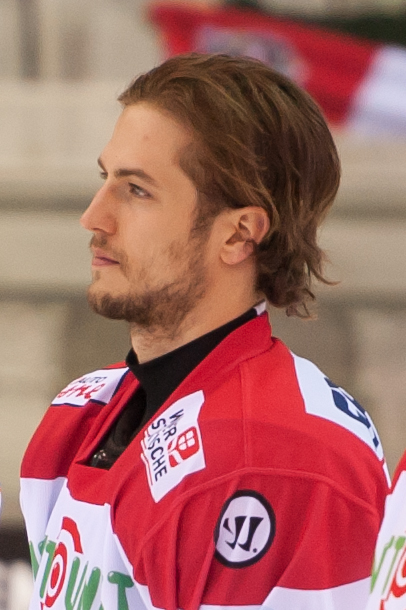 Euro Ice Hockey Challenge Vienna, February 7, 2015, Austria vs. Slovakia